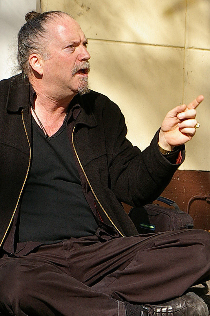 Dror Feiler at the Donaueschinger Musiktage 2008